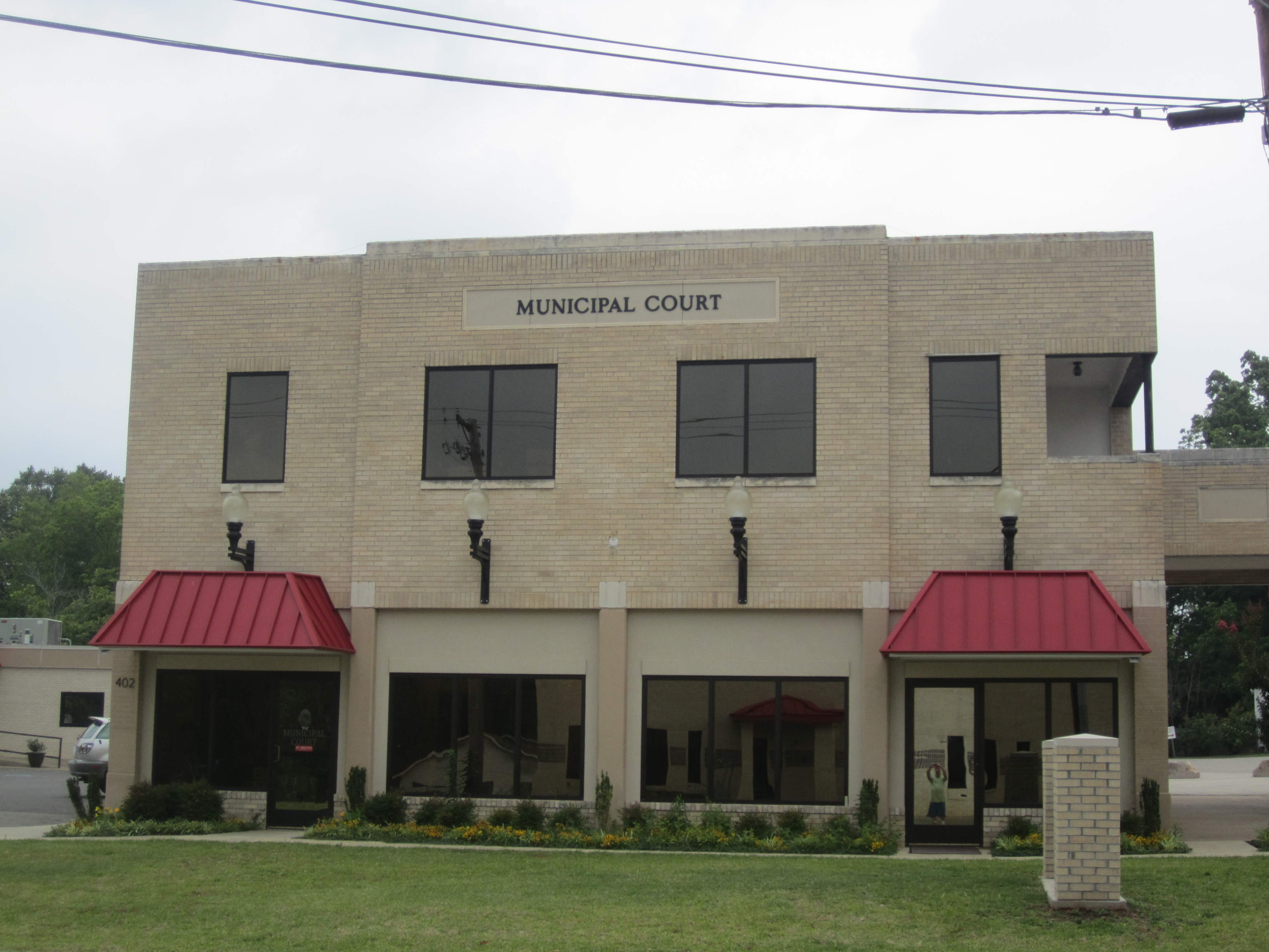 I took photo with Canon camera in Henderson, TX.